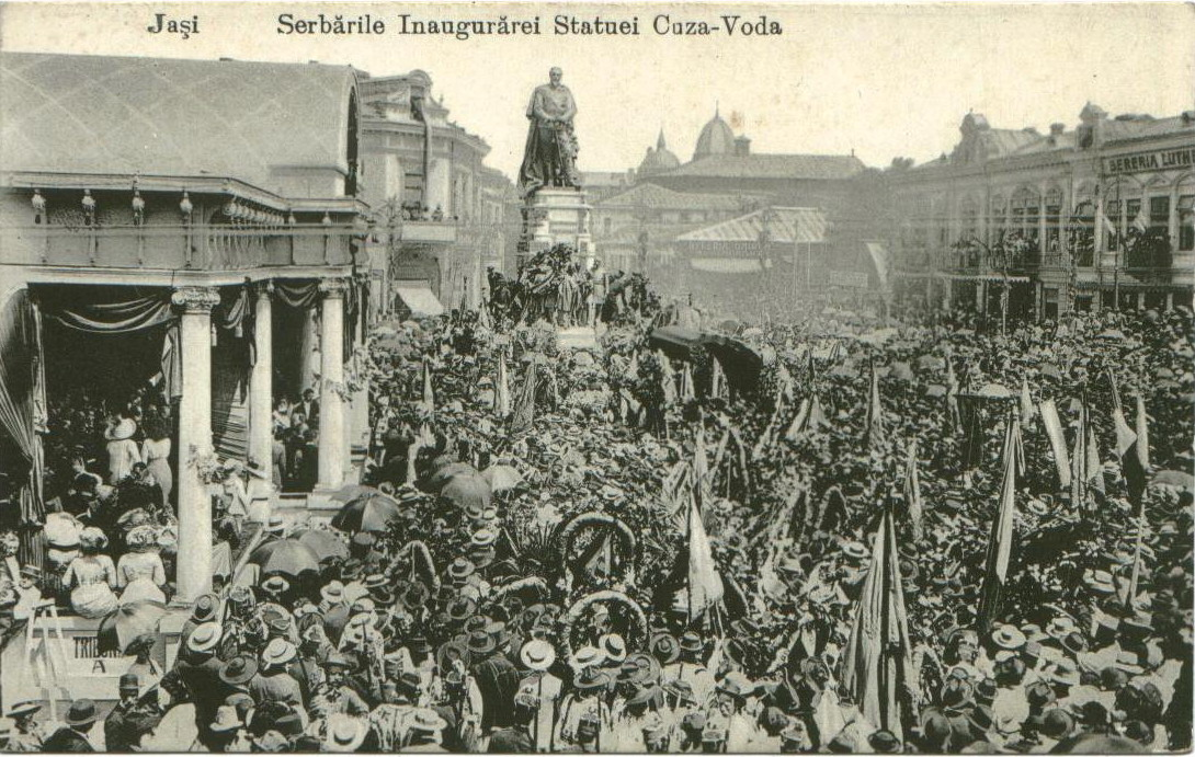 Alexandru Ioan Cuza Statue, Iaşi, Romania